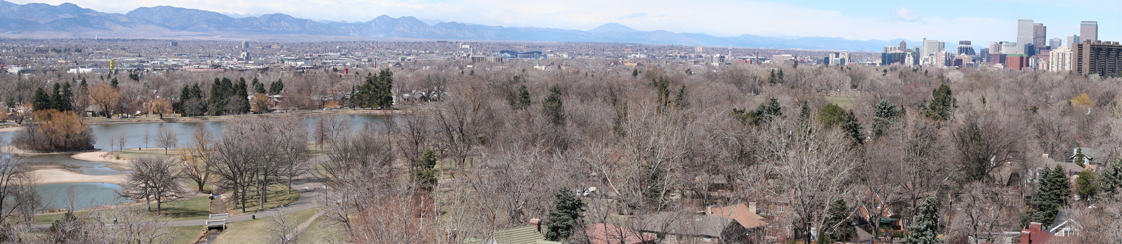 A view of Washington Park, Rocky Mountains and downtown Denver. Taken by Matt Wright on March 30, 2006.